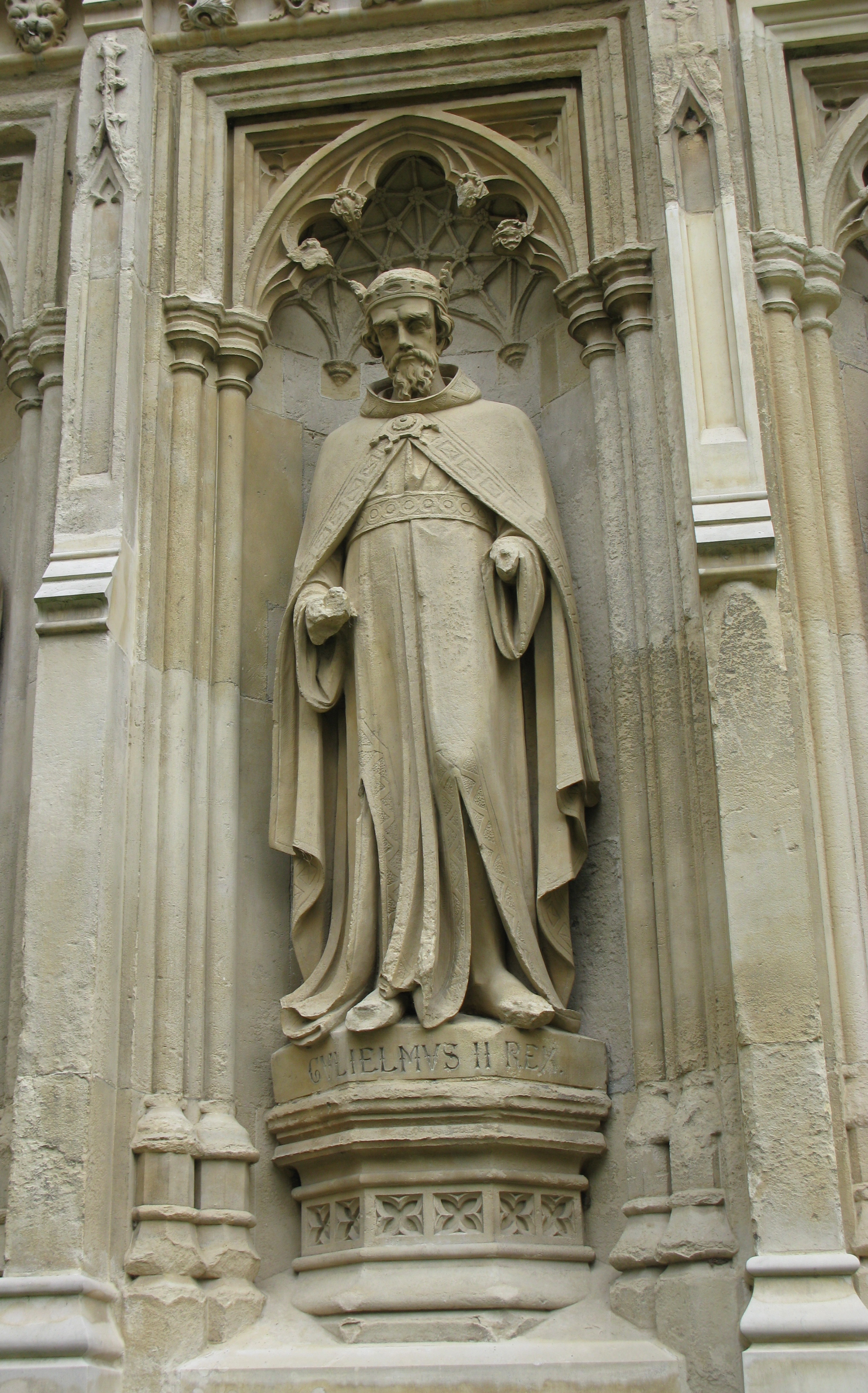 Sculpture of William Rufus (William II of England) on Canterbury Cathedral in Canterbury, England.